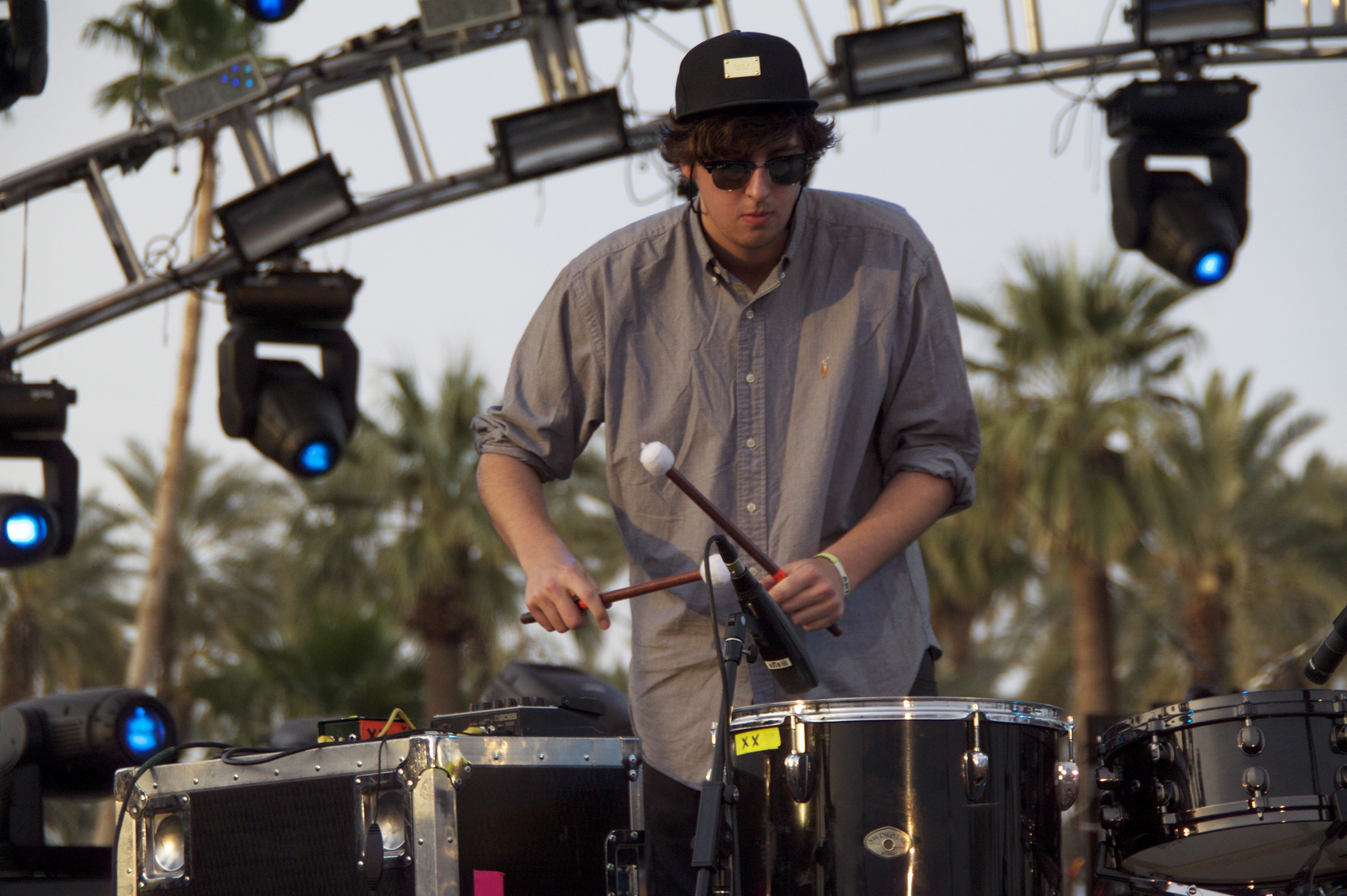 The XX perform at Coachella 2010. Top 5 of Coachella 2010.